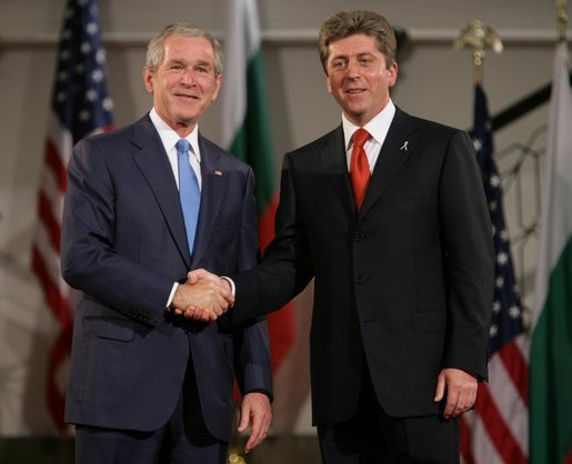 President George W. Bush and President Georgi Parvanov shake hands at the conclusion of their joint press availability Monday, June 11, 2007, in Sofia, Bulgaria.